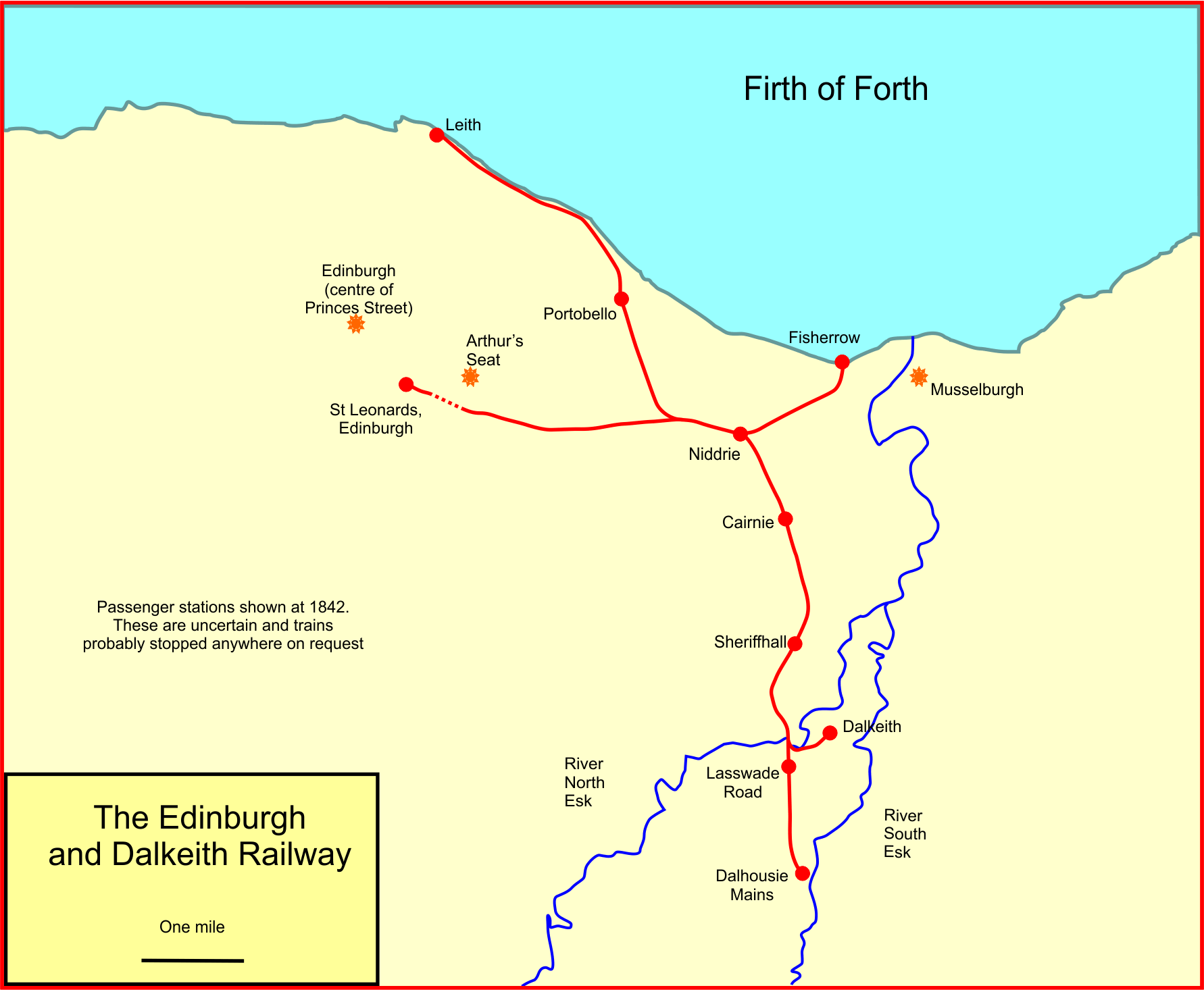 The Edinburgh and Dalkeith Railway network showing presumed statuion locations